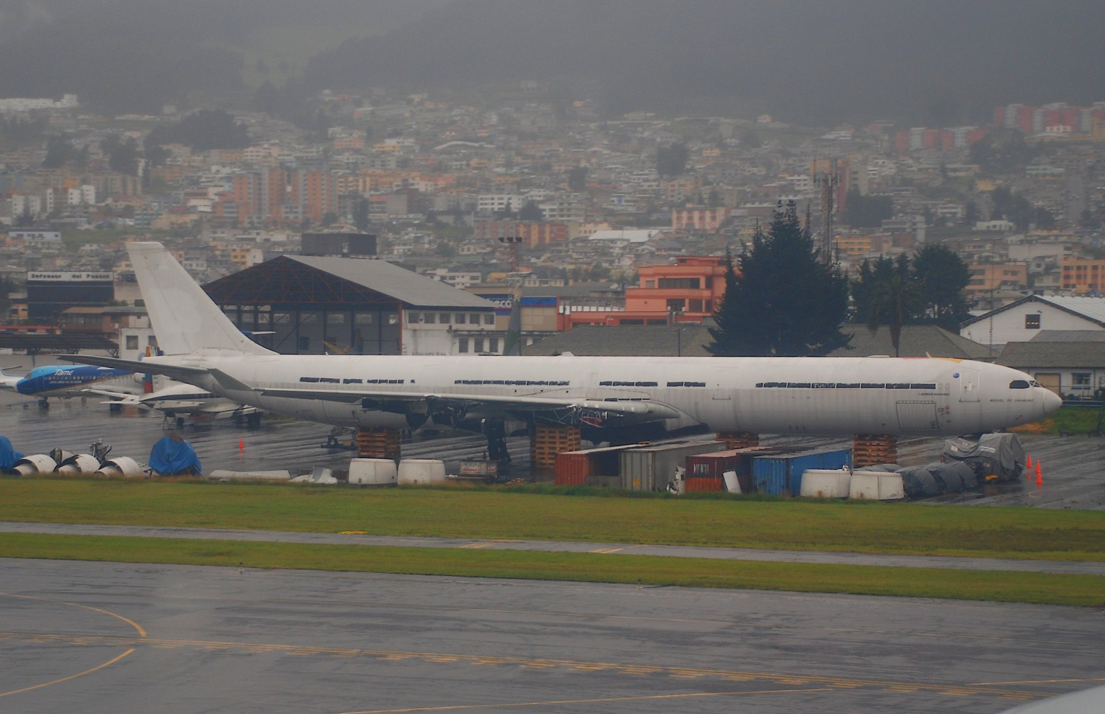 The Airbus was written off after it overshot the infamous runway at Quito (UIO). The incident happened on November 9, 2007. The picture shows the Airbus A340-600 in an early stage of being scrapped...